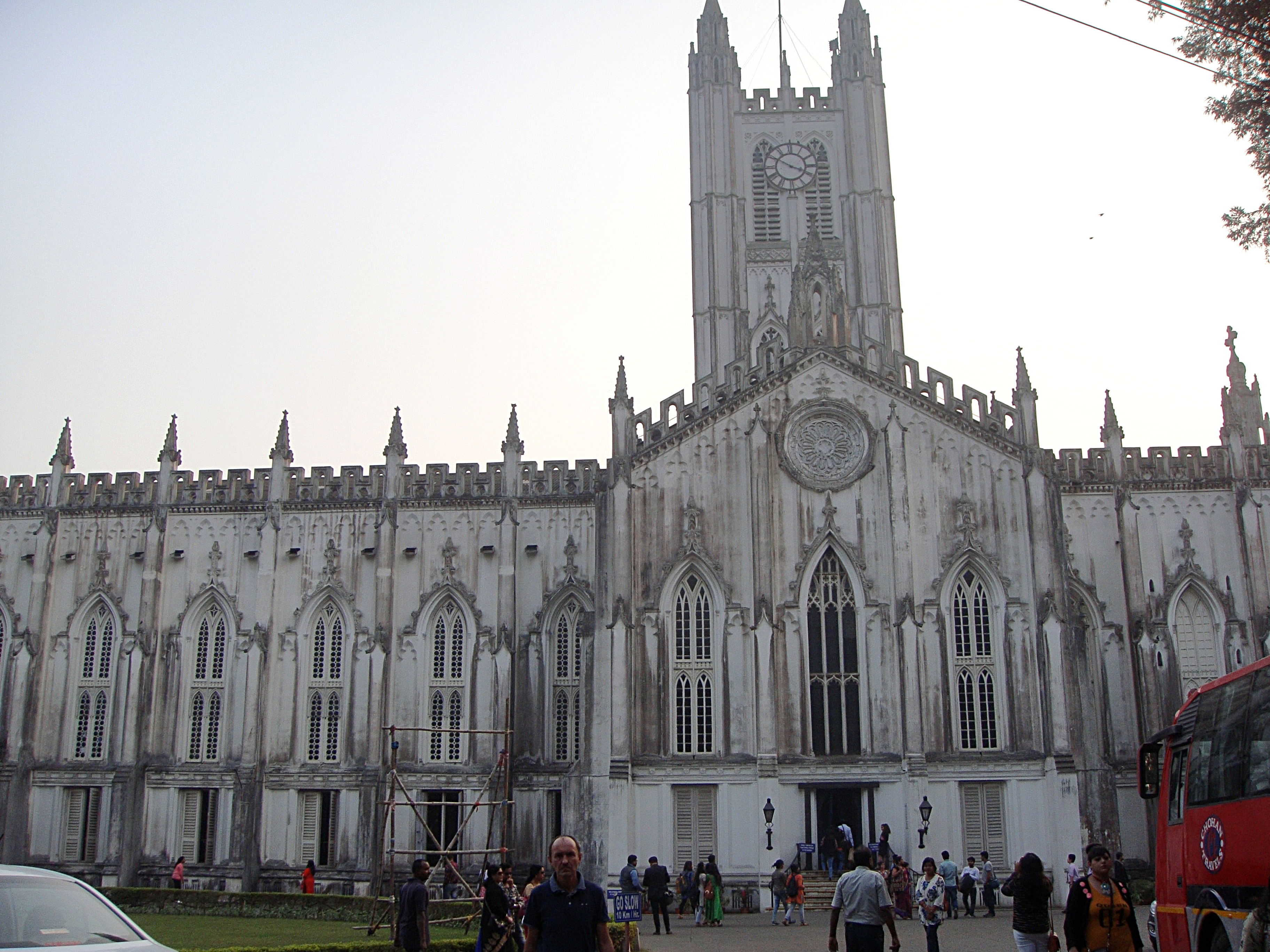 Kolkata, St. Paul's Cathedral, Dec. 2018